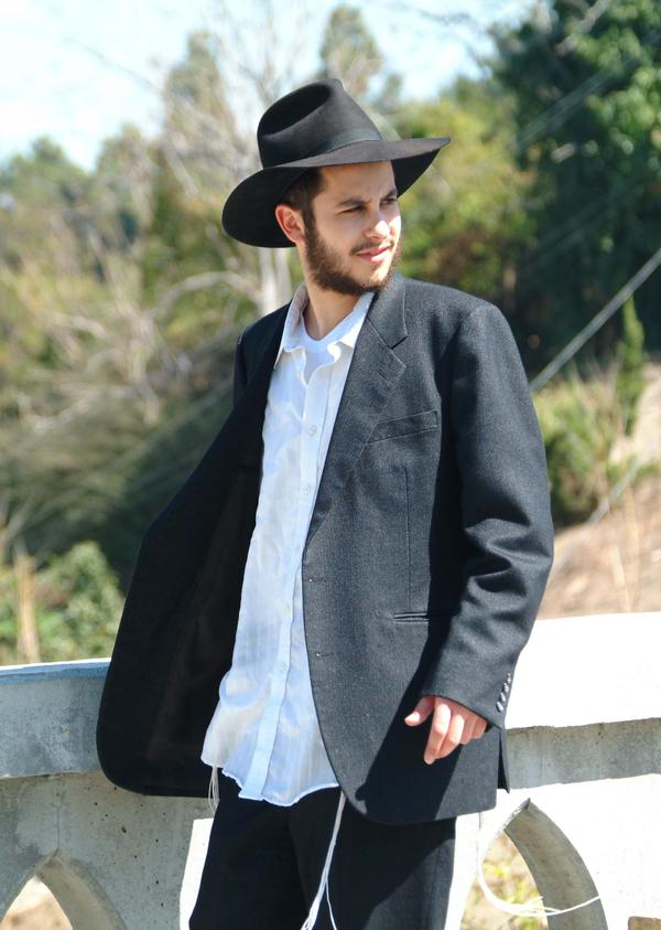 Pic from Song of David